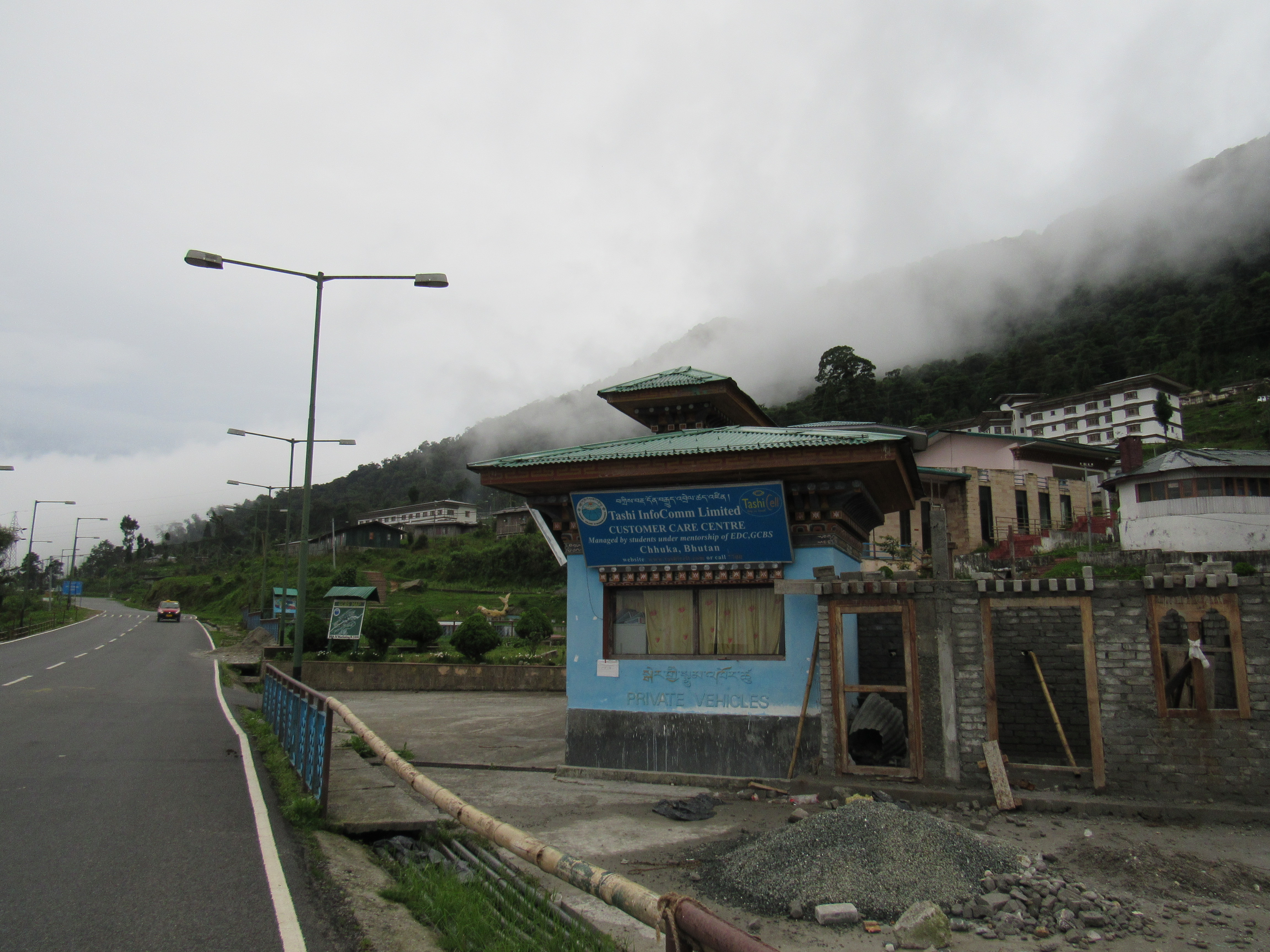 Buildings of Gaeddu College of Business Studies in Bhutan